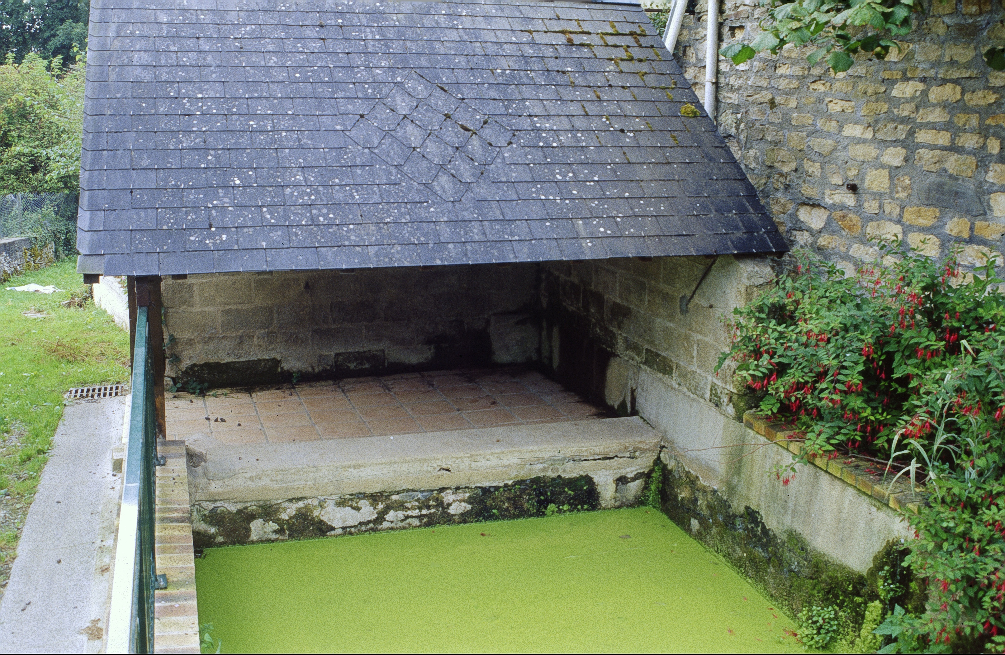 Wash house of Ouffières in hamlet called Neumer